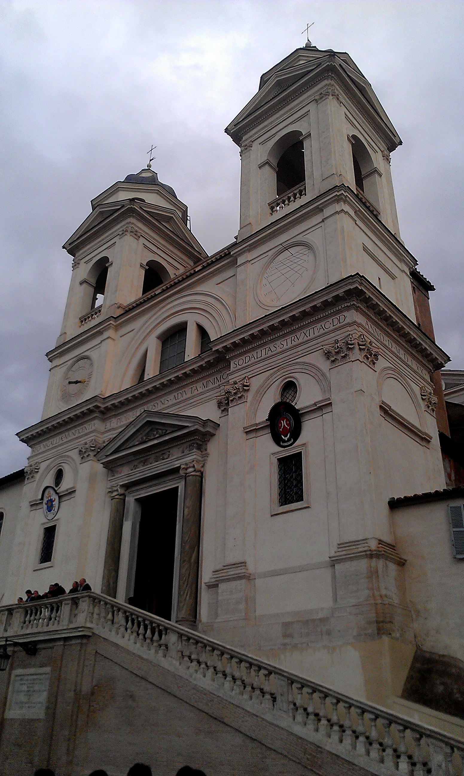 Exterior of the Trinità dei Monti atop the Spanish Steps in Rome.